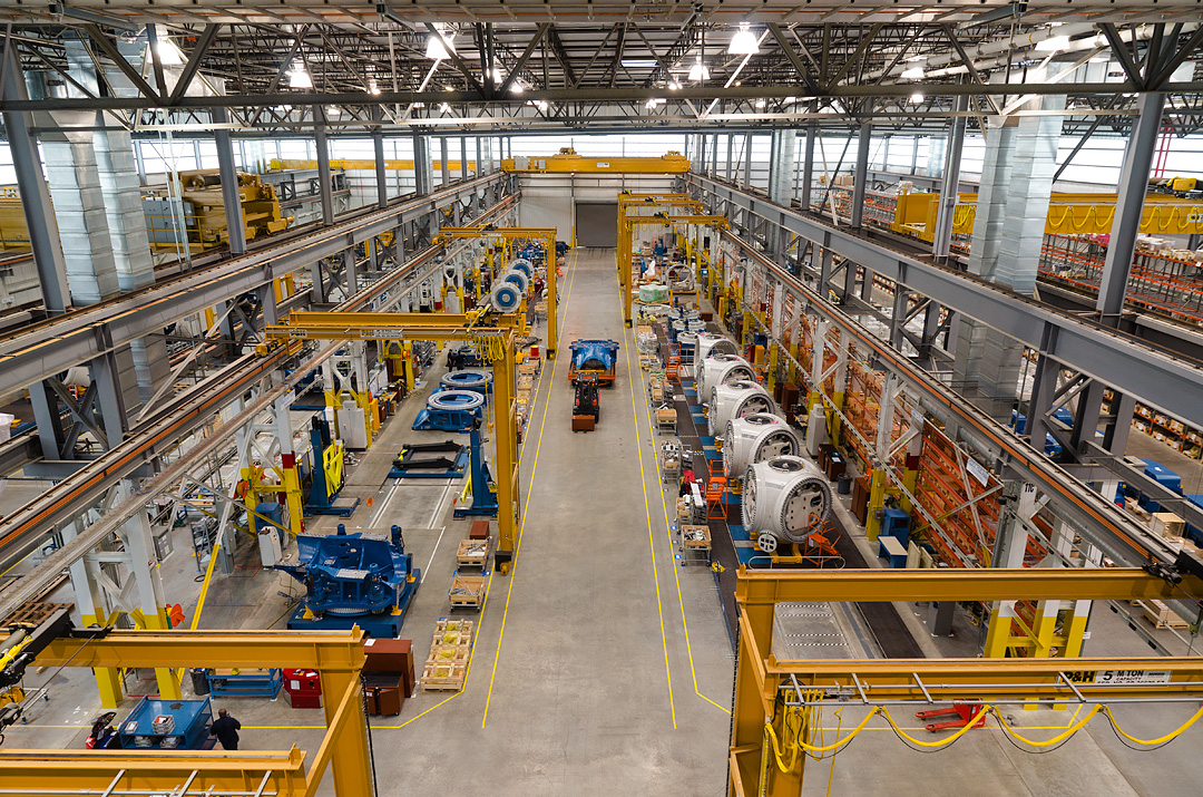 Nordex USA manufacturing facility - Jonesboro, Arkansas.